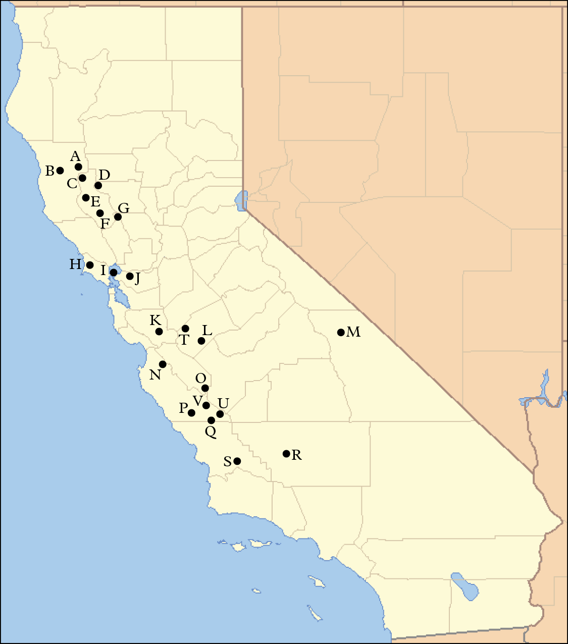 Legend: A. Elk Creek; B. Laytonville; C. Brushy Mt.; D. Pillsbury; E. Potter Valley; F. Bartlett Spring; G. Cache Creek; H. Point Reyes; I. Grizzly Island; K. Mt. Hamilton; L. San Luis; M. Owens Park; N. Fremont Peak; O. So. San Benito; P. Fort Hunter Liggett; Q. Camp Roberts; R. Tupman; S. La Panza; T. W. Merced; U. Parkfield; V. San Ardo Data source: Dale R. McCullough, From Bottleneck to Metapopulation: Recovery of the Tule Elk in California, in: Metapopulations and Wildlife Conservation, ed. by Dale R. McCullough, p. 385, figure 16.3 This file was derived from: California Locator Map.PNG